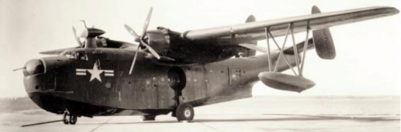 A U.S. Navy Martin PBM-5A Mariner, in January 1949. Only 36 of 631 PBMs were built as amphibians, the last rolling off the line in 1949.